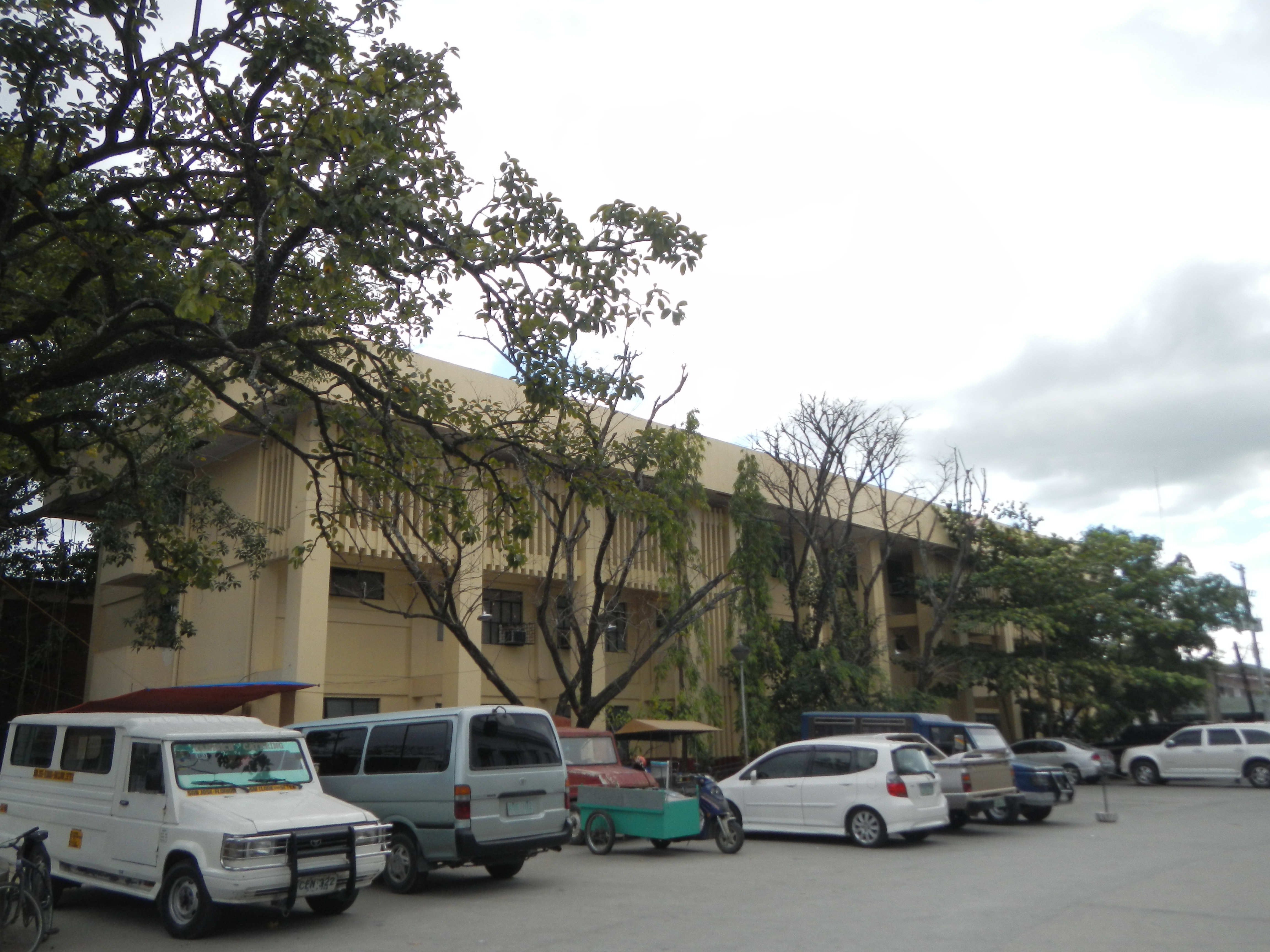 Halls of Justice, Pampanga Regional Trial Courts and Metropolitan Trial Courts (beside Pampanga Provincial Capitol) Pampanga Provincial Capitol[1]